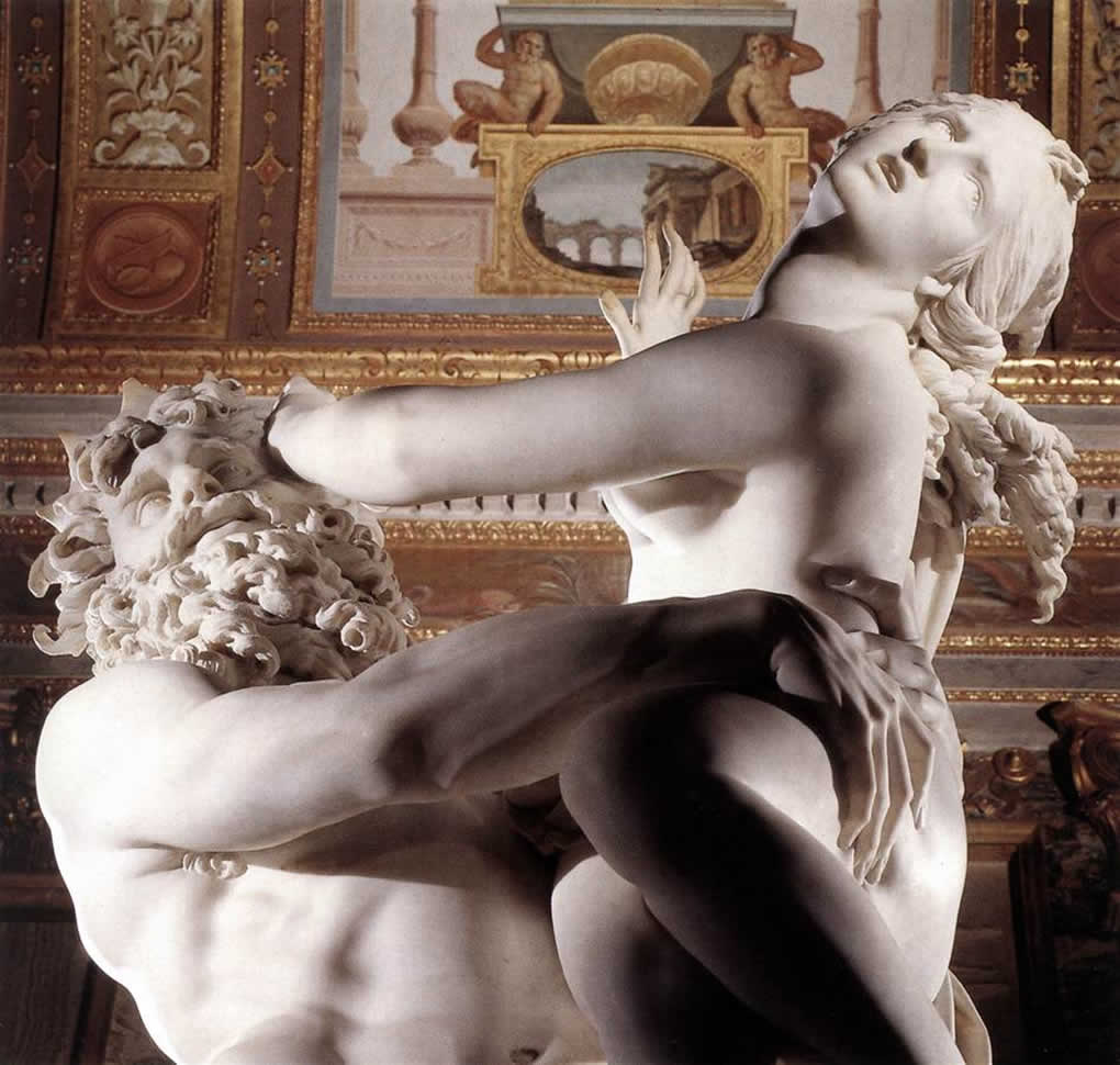 Sculptures in the Galleria Borghese (Rome)